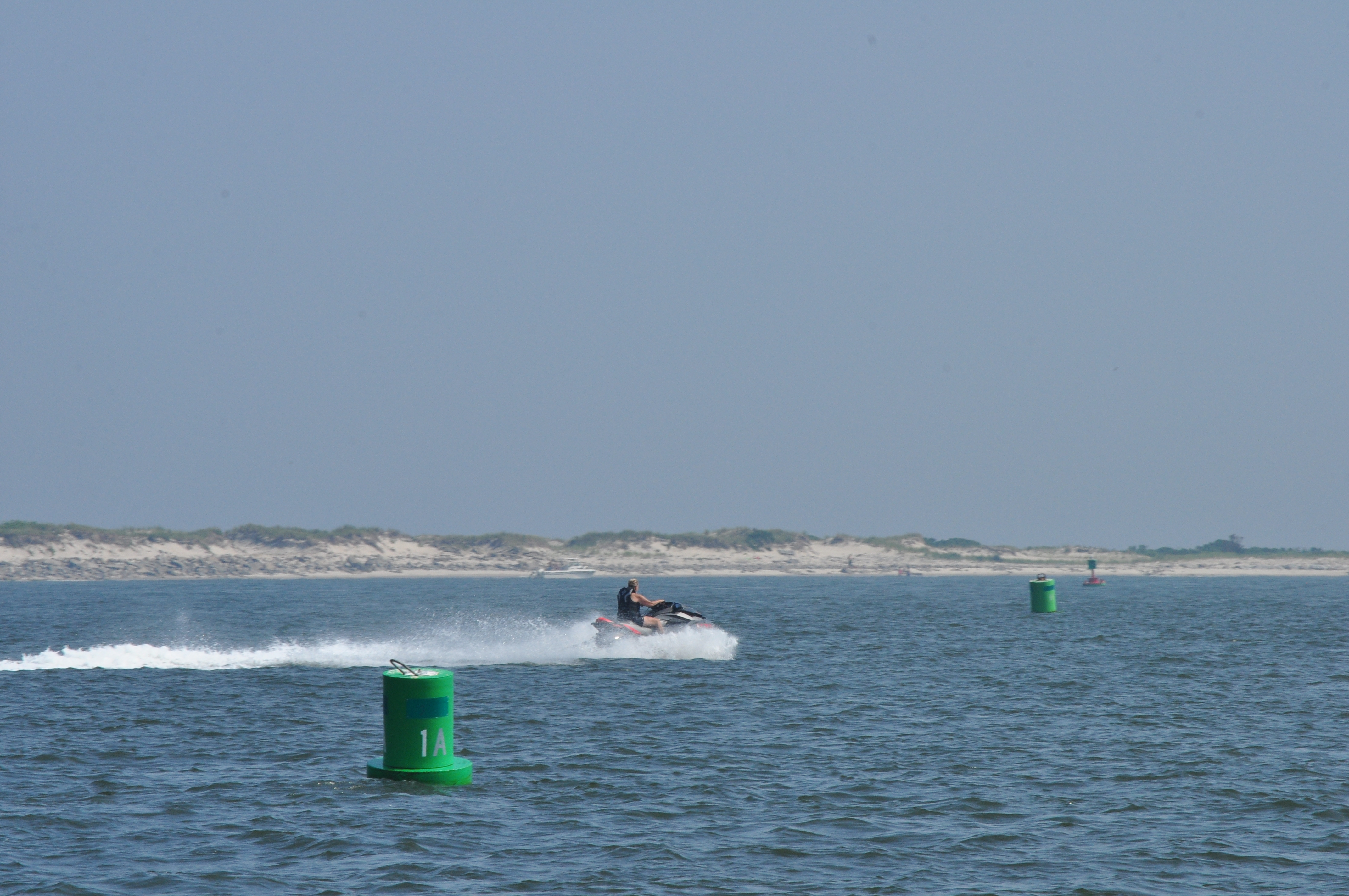 Jetskiing on South Oyster Bay near Point Lookout, New York, seen from the Freeport Water Taxi.